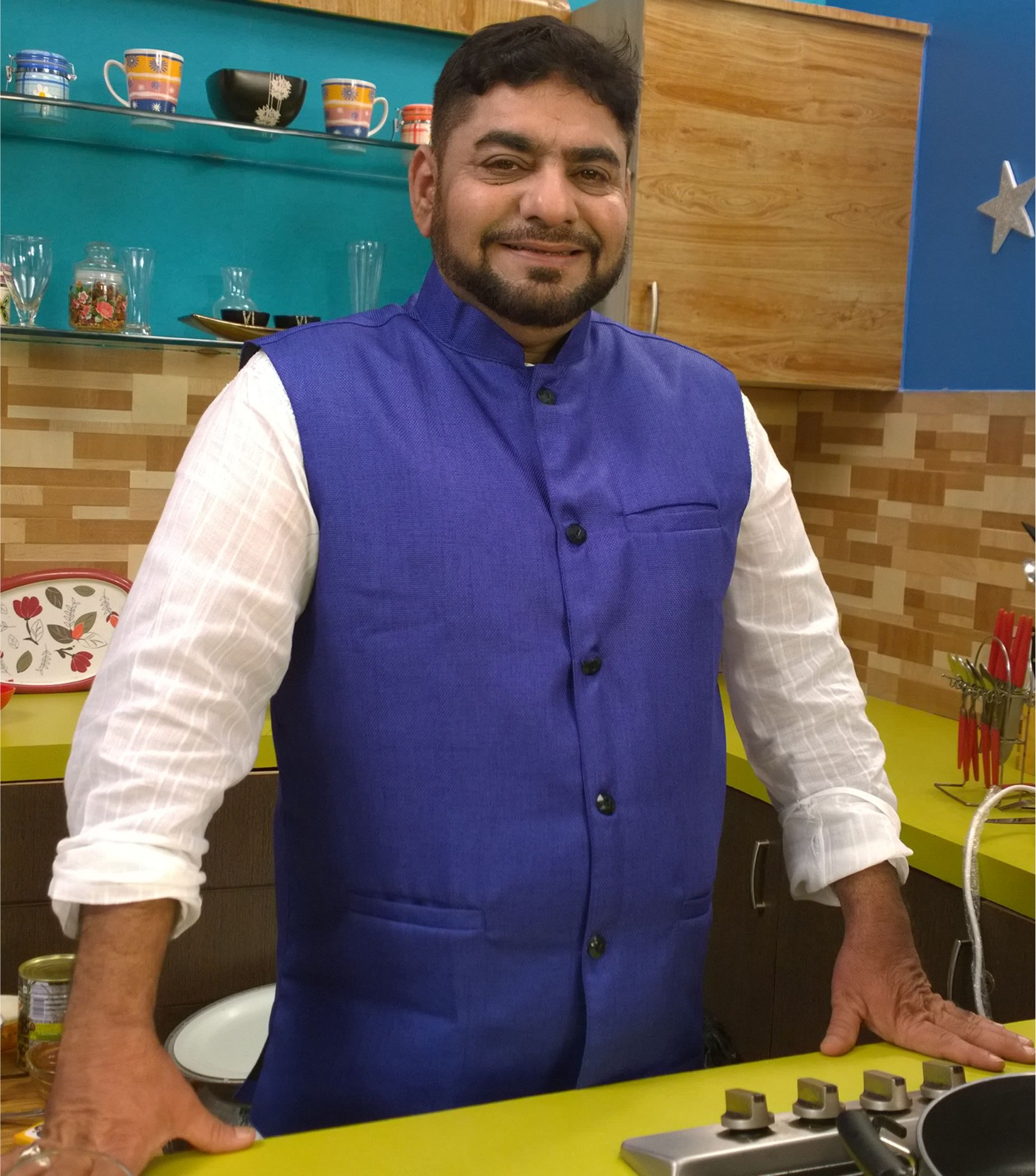 Chef Izzat Husain